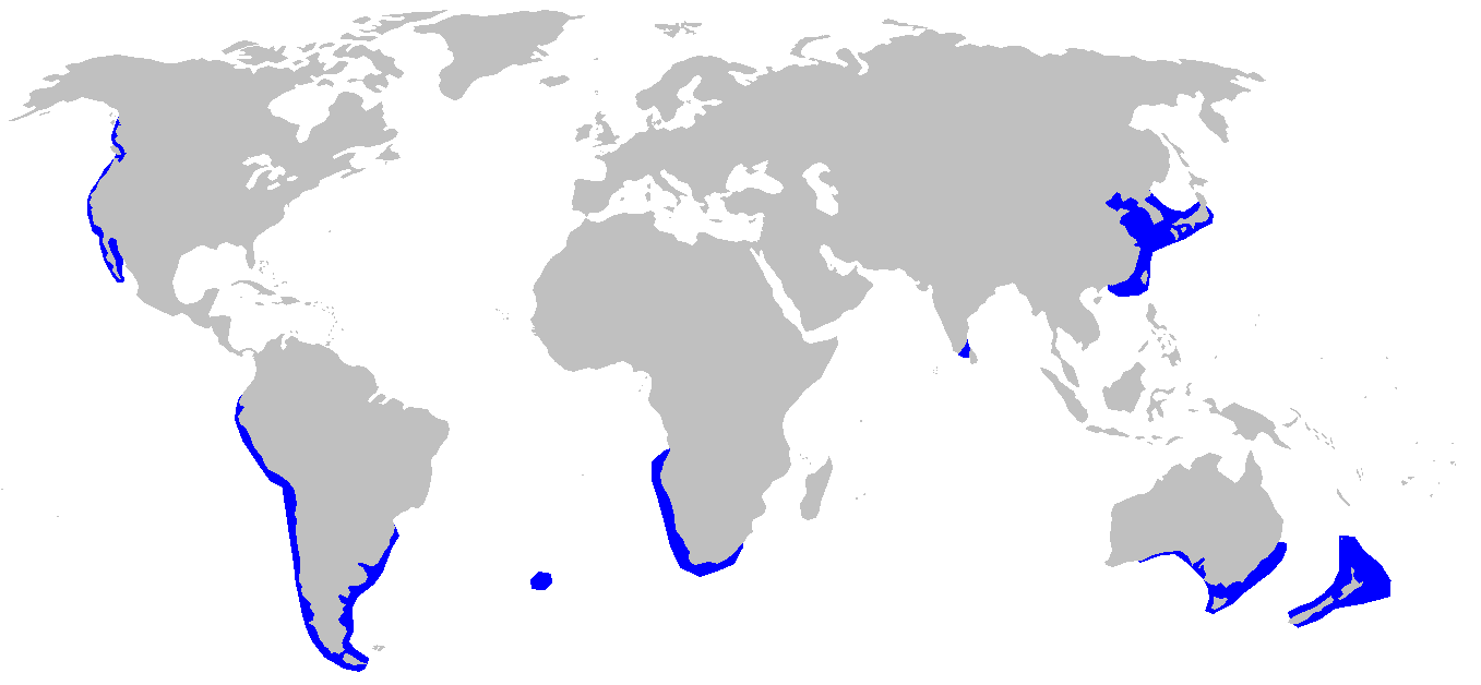 Distribution map for Notorynchus cepedianus